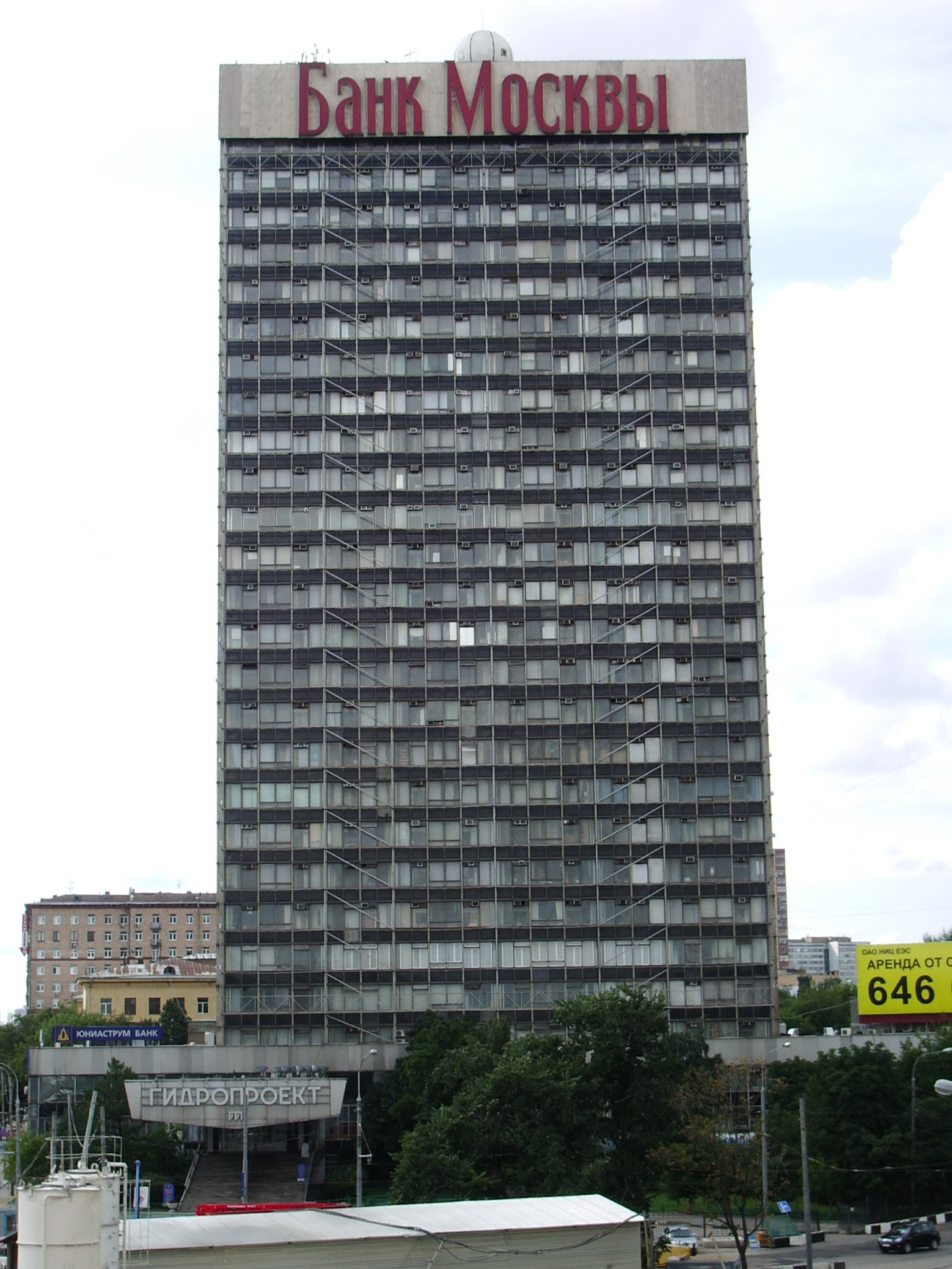 Hydroproject building in Moscow